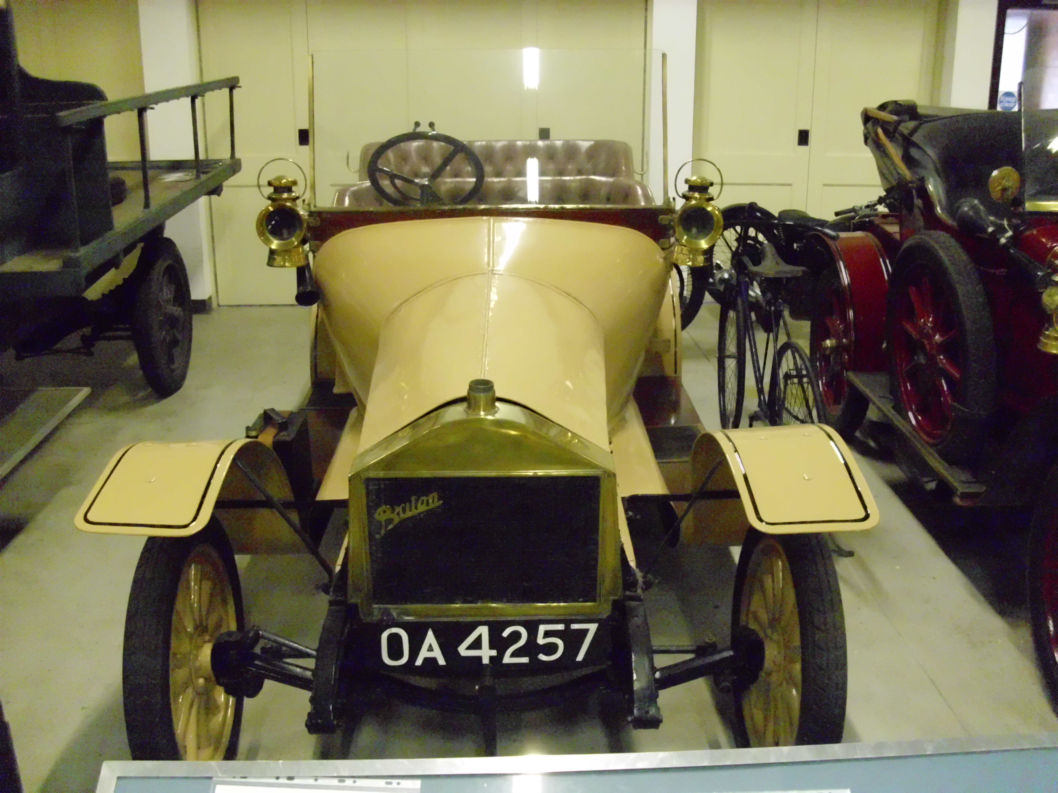 Briton 10/12 HP 1914